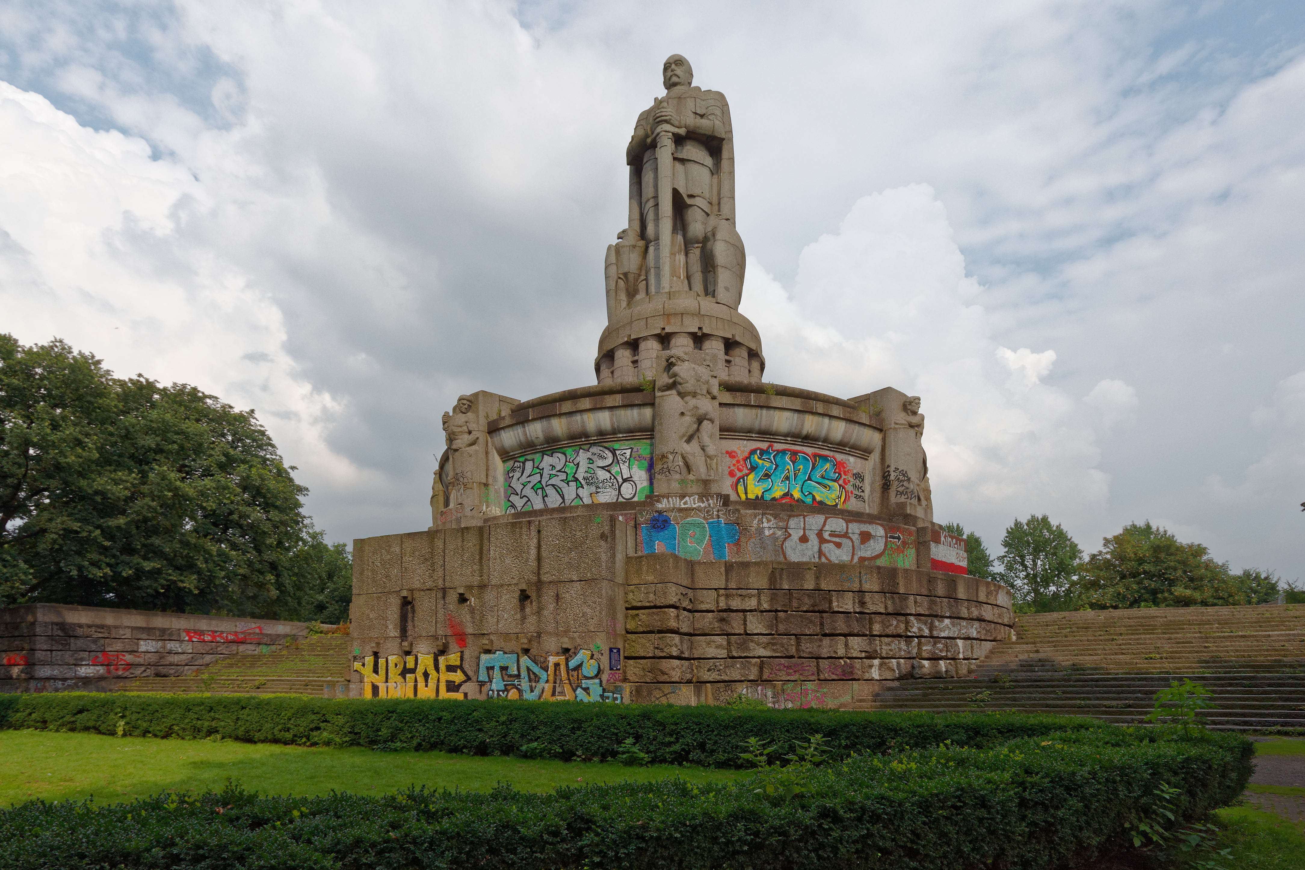 Hamburg, Bismarck-monument